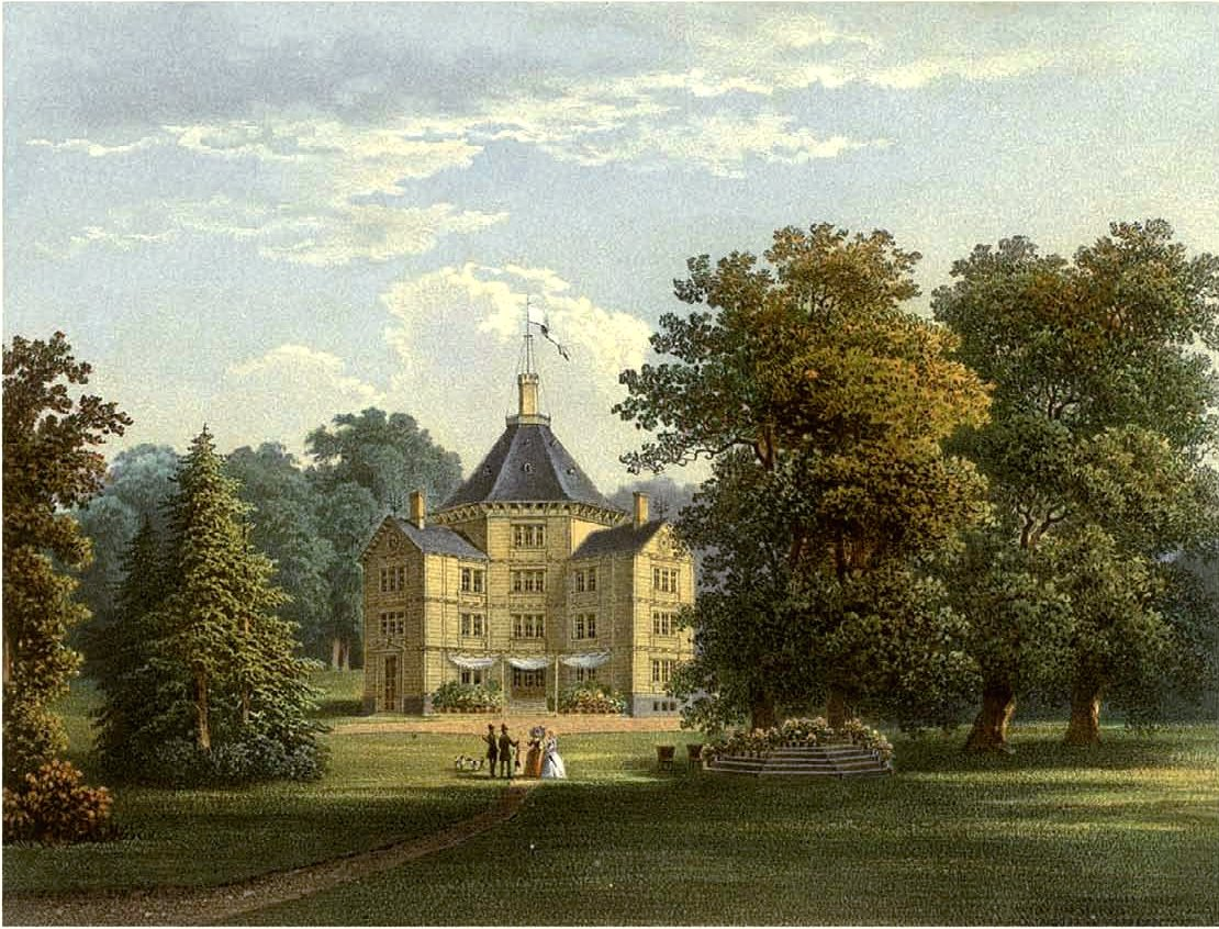 Hunter Palace of Antonin, built for Radziwiłł family